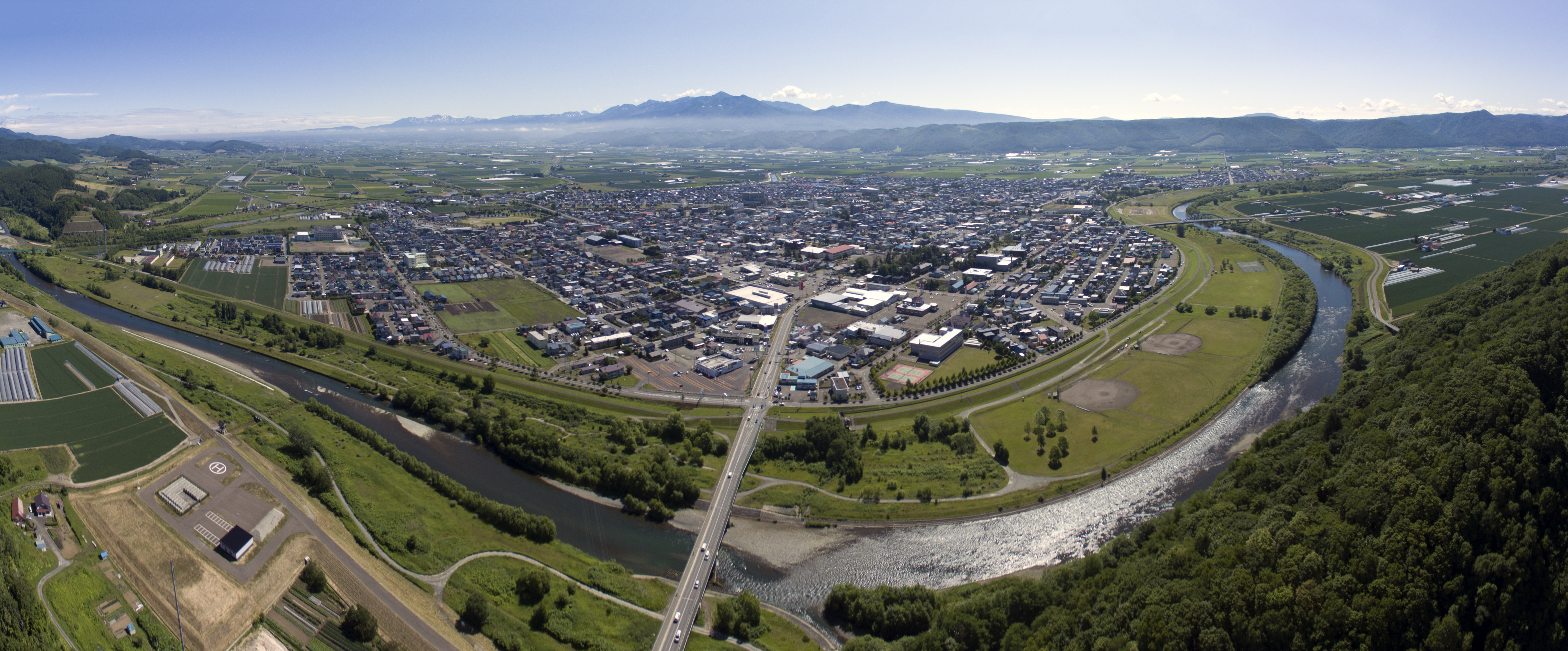 aerial panorama furano hokkaido 2015